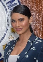 The Manila City government on Tuesday, September 3, turned over financial assistance to student-athletes of the nation’s capital who participated in the Batang Pinoy finals in Puerto Princesa, Palawan. This is the first time that the local government had turned over assistance to these young representatives of the City of Manila. Manila City Mayor Francisco “Isko Moreno” Domagoso and Miss Universe Philippines Gazini Ganados led the turnover at the Bulwagang Katipunan. On the same day, Ganados also paid a courtesy call on the Manila City Mayor.